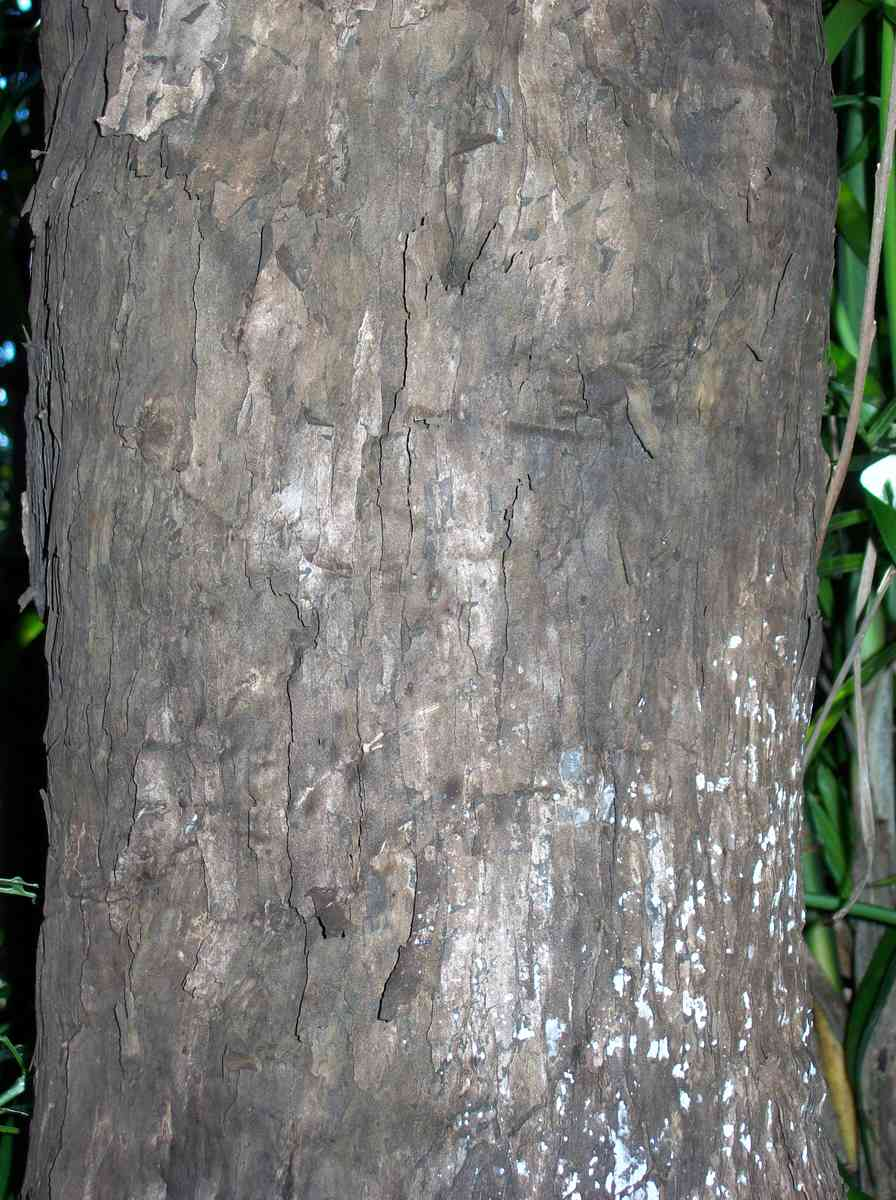 Diospyros mabacea, bark at the RBG, Sydney